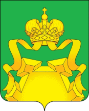 Coat of arms of Alekseye-Tenguinskaya, Tbilískaya raion, Krasnodar krai, Russia.